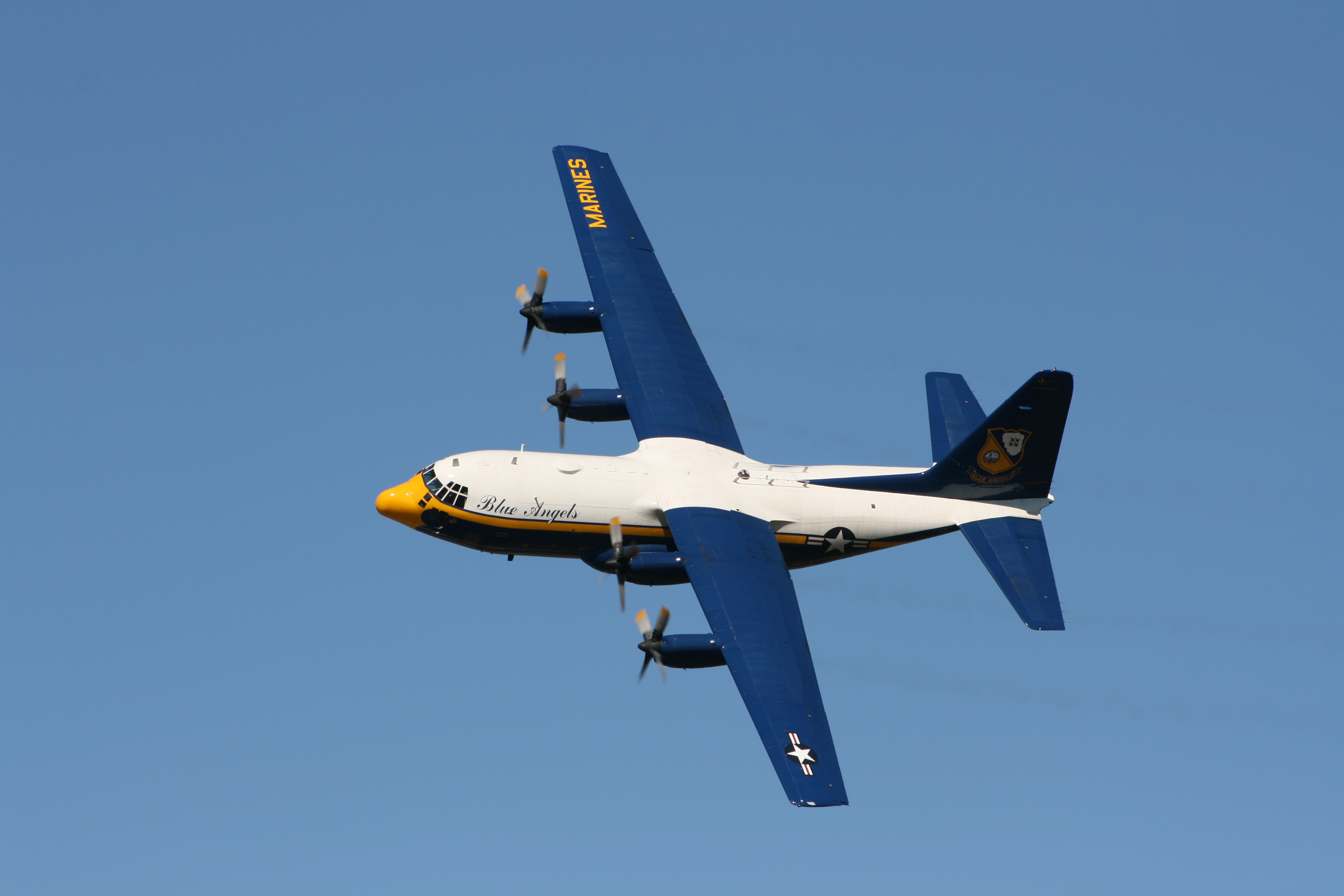 Photo of the US Navy Blue Angels Fat Albert (C-130T Hercules) during the Air Show at the Naval Air Station in Jacksonville, Florida, USA.